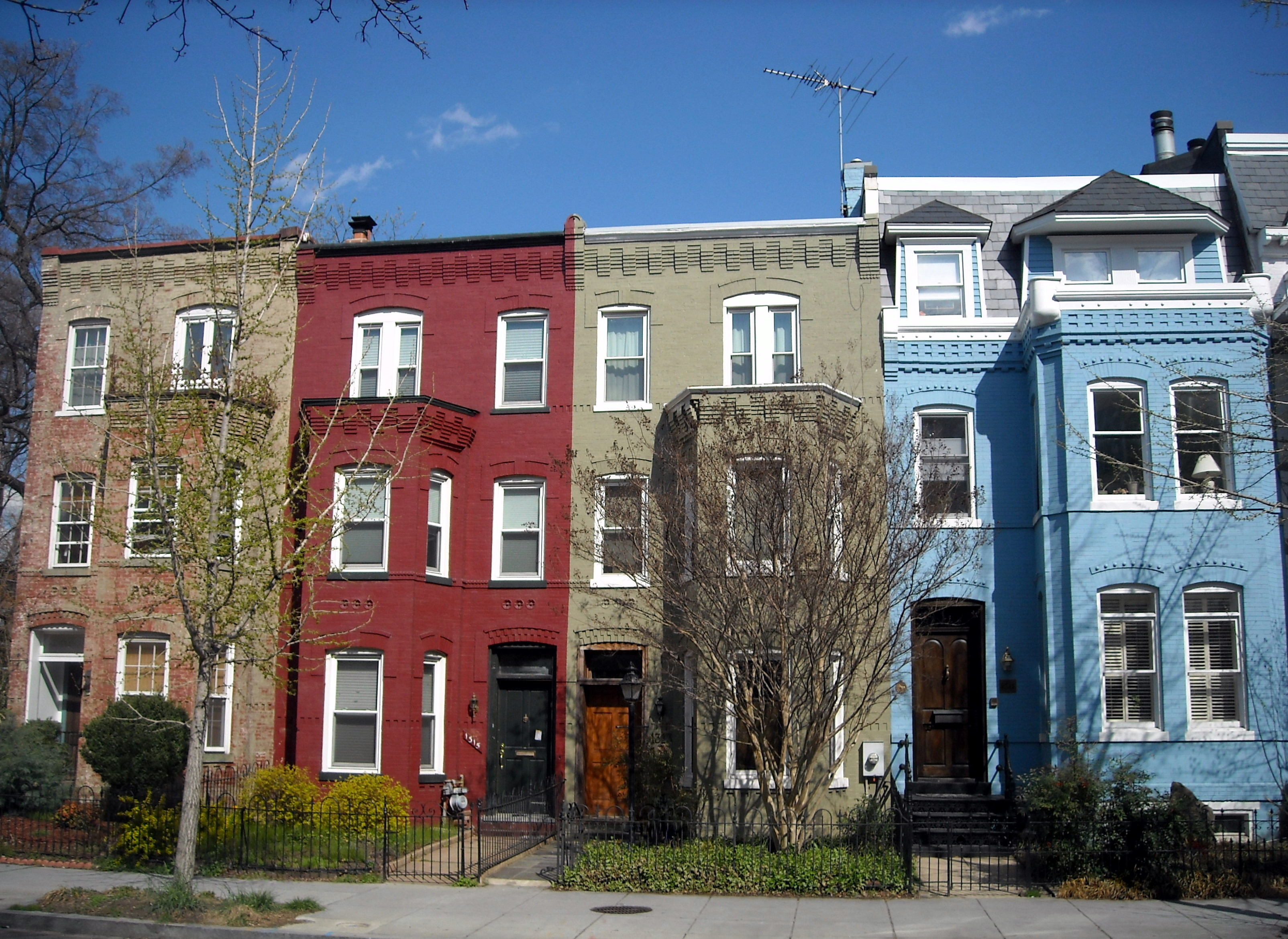 Row houses, located at 1311–1317 22nd Street, N.W. (right to left), in the Dupont Circle neighborhood of Washington, D.C. Built in 1890, the Queen Anne and Romanesque Revival-style homes are designated as contributing properties to the Dupont Circle Historic District, listed on the National Register of Historic Places in 1978. A previous occupant of 1315 22nd Street, N.W. (red building), Frank Wills, was the security guard who uncovered the break-in that led to the Watergate scandal.